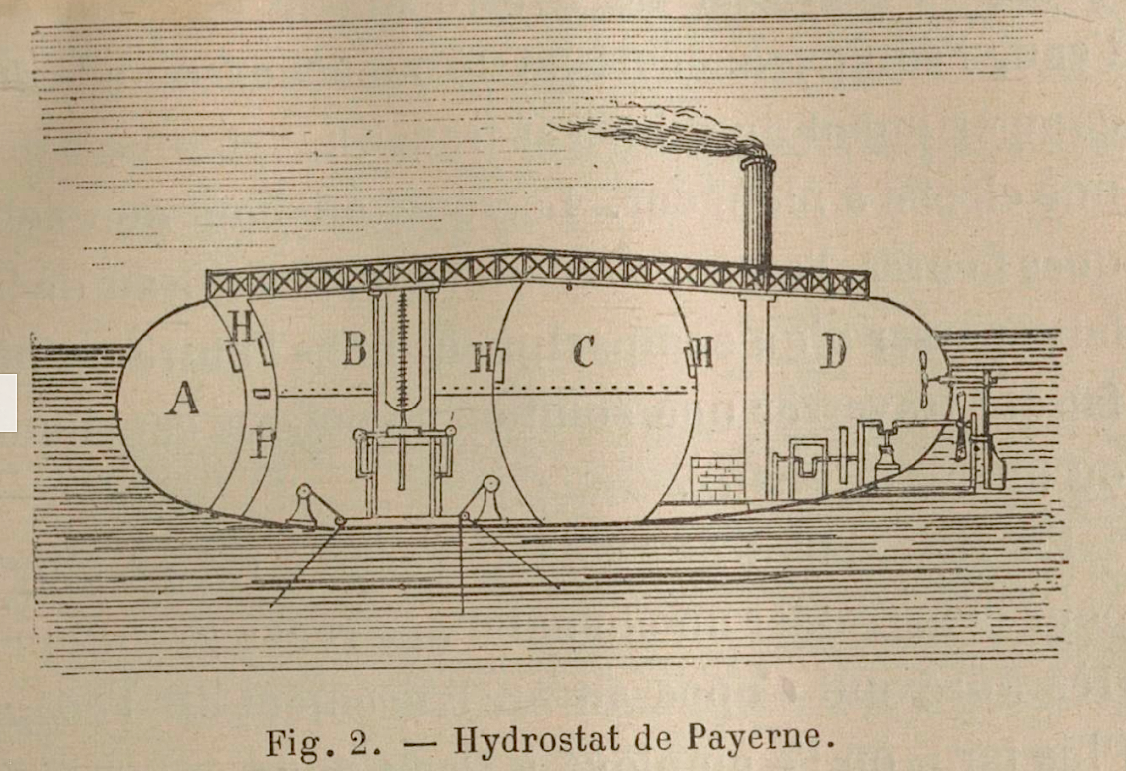 Belledonne, "hydrostat" submersible boat invented by Prosper-Antoine Payenne in 1844, depicted in La Navigation sous-marine by A.-M. Villon (Paris, 1891).